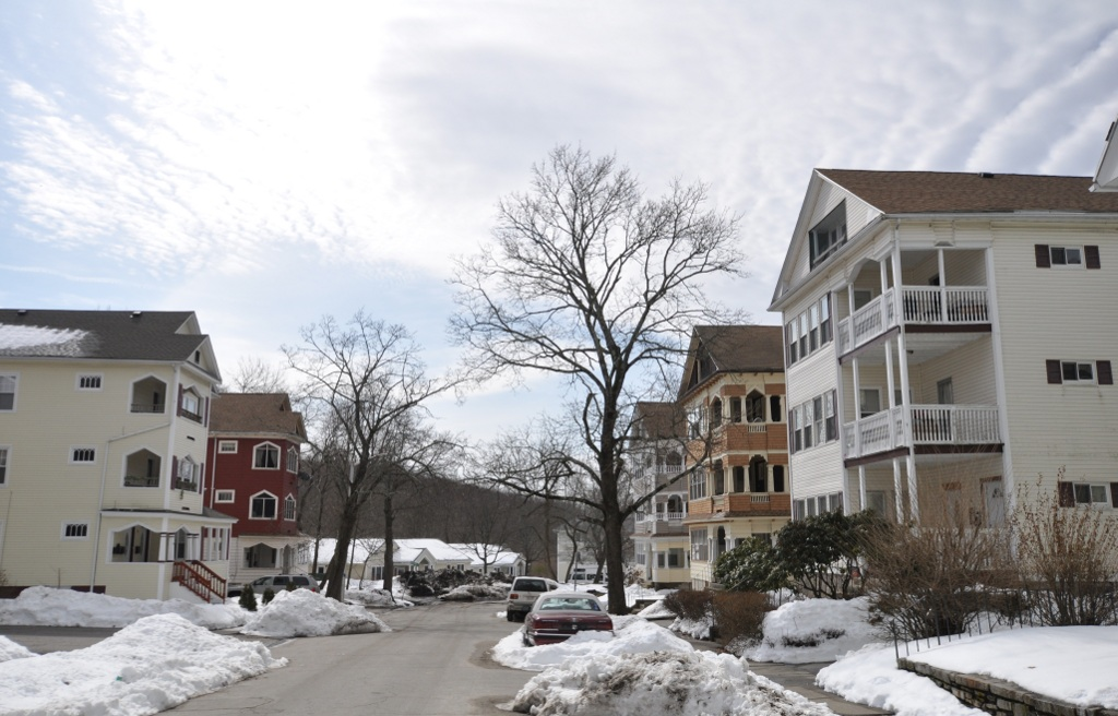 Woodford Road, Worcester, Massachusetts.